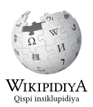 Wikipedia logo 2.0